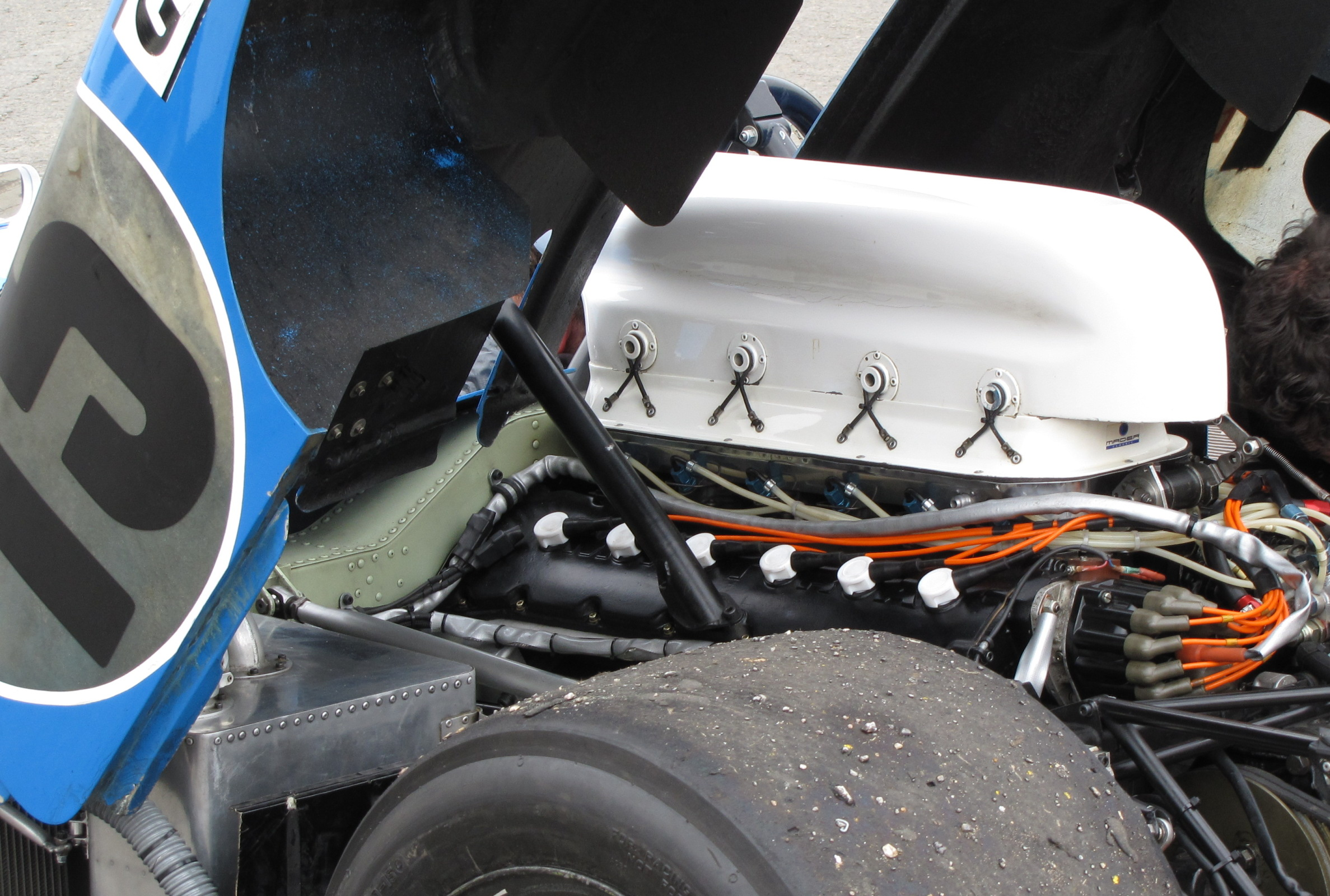 The MS72 engine of a Matra MS670 in the paddock of the Classic Endurance Racing in Spa 2009.